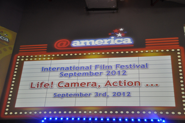 Life! Camera Action... wins Best Feature Film at the International Film Festival for Peace, Inspiration and Equality aka Official World Peace Film Festival